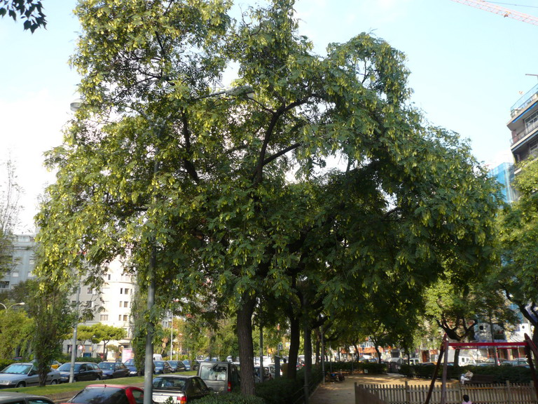 Tipuana tipu in Barcelona